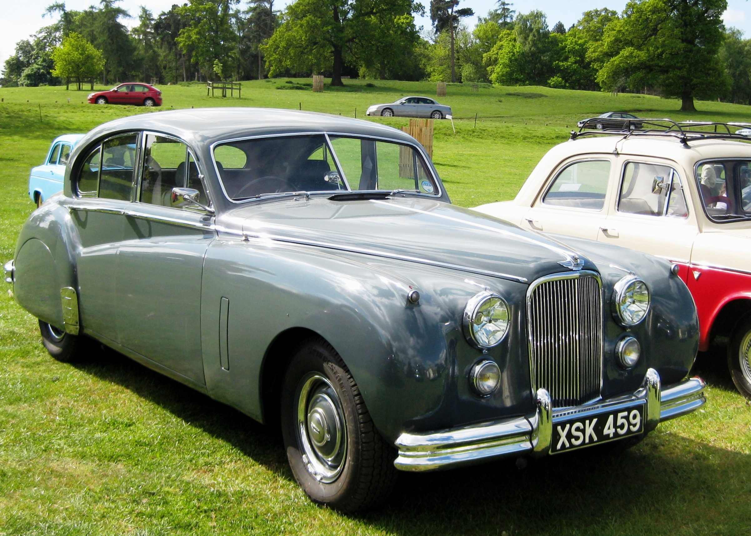 Jaguar Mark VII near Biggleswade